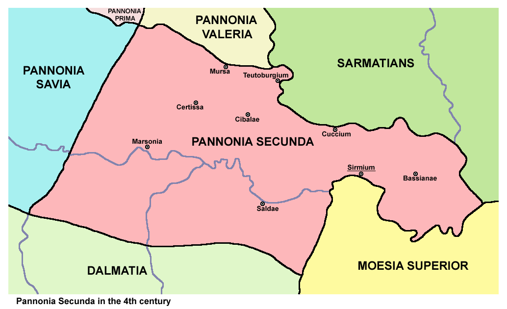 Historic map of Roman province Pannonia Secunda, 4th century.